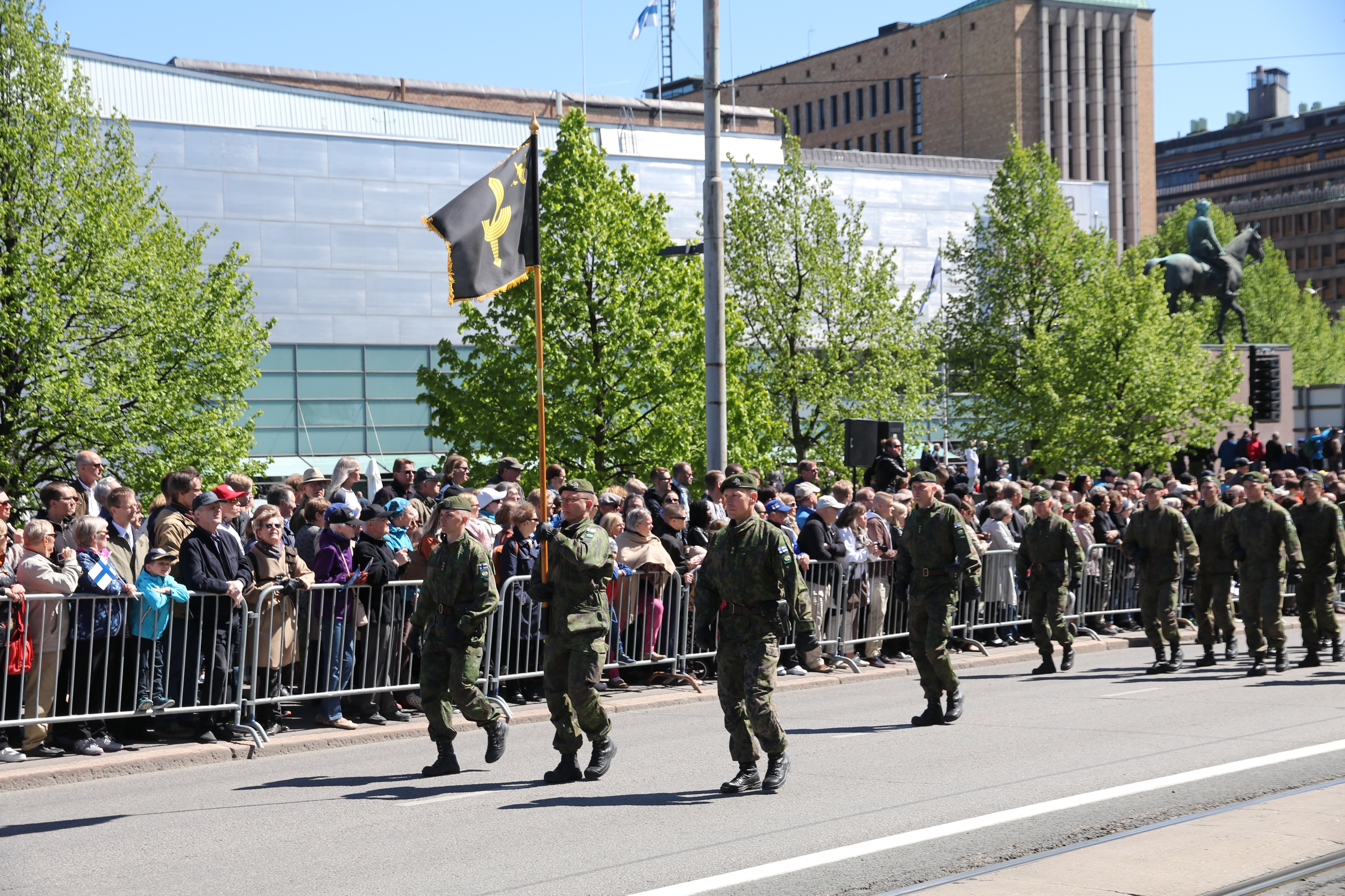 Finnish defence forces flag day 2017 parade: Finnish army sports school flag. Sports school is presently part of the Guard jaeger regiment.